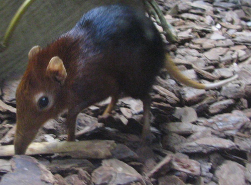 Elephant shrew